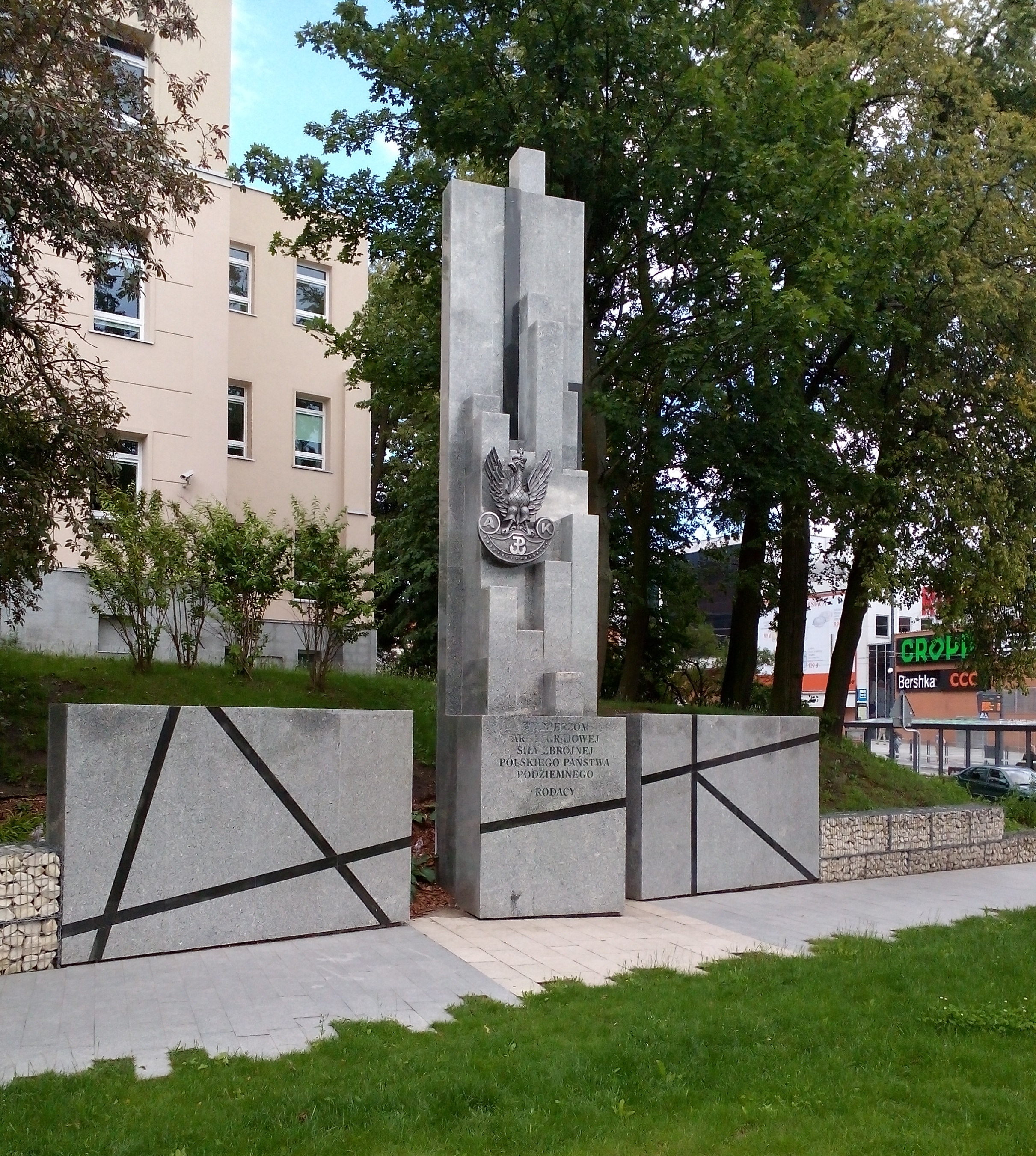 Monument of Home Army/ Armia Krajowa unvieled in Olsztyn, Poland on 27.09.2014- 75th anniversary of Polish Victory Service (Służba Zwycięstwu Polski) appointng